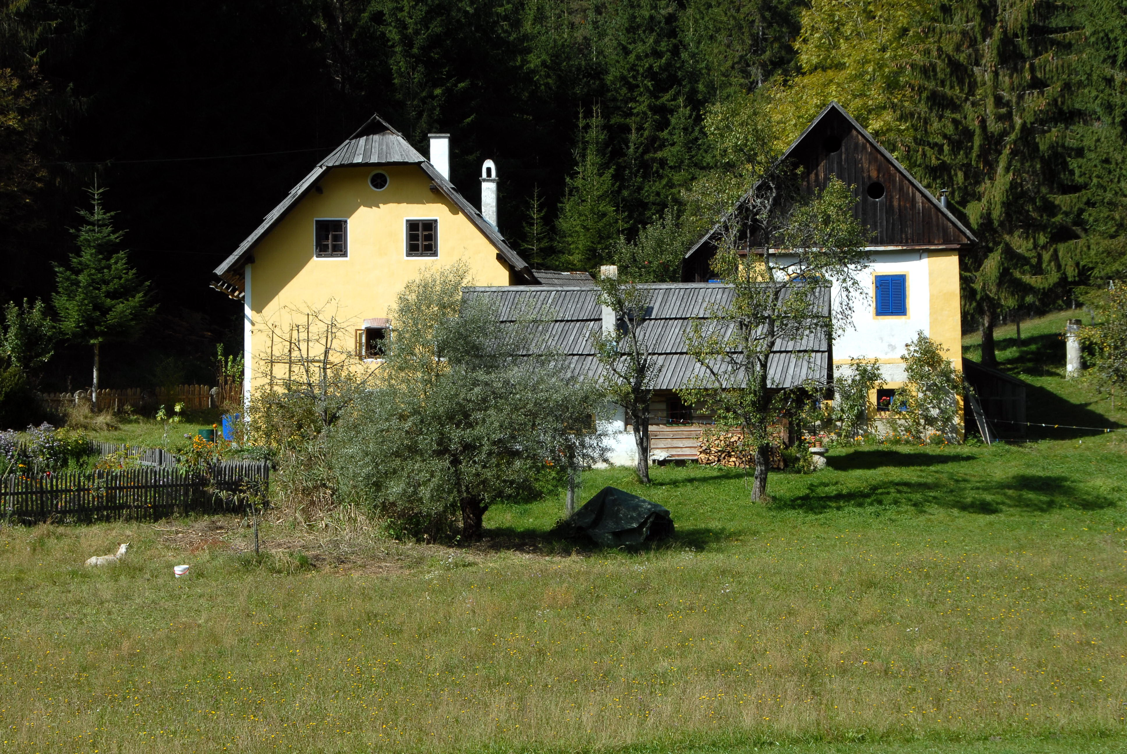 Homestead at Sabuatach in the community of Ebenthal in Kärnten, district Klagenfurt-Land, Carinthia, Austria